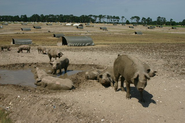 Organic pig farming. Much of the land near here, on West Calthorpe Heath, is given over to organic pig farming.